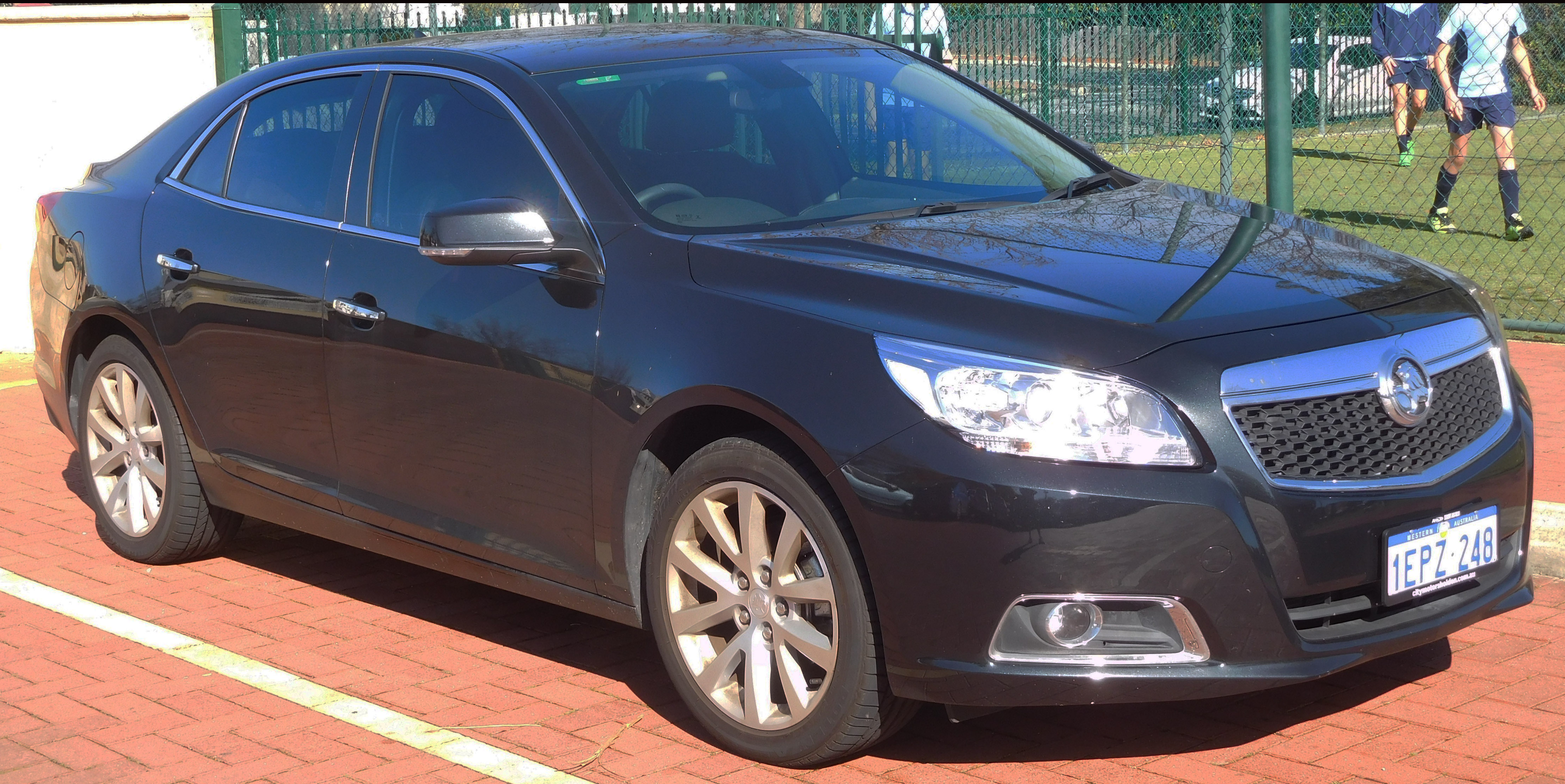 2014 Holden Malibu (EM) CDX sedan. Photographed in South Perth, Western Australia Australia.